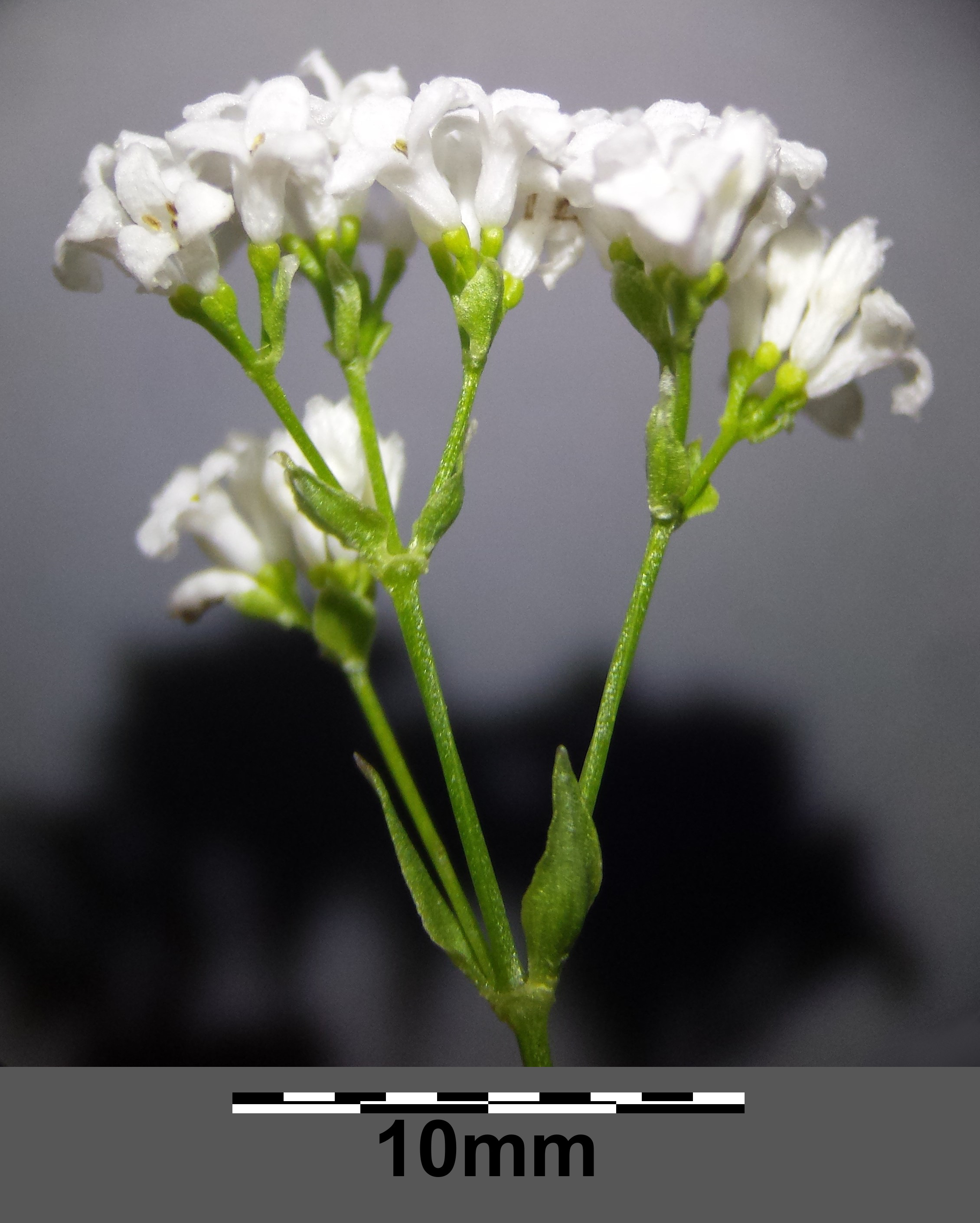 Inflorescence Taxonym: Asperula tinctoria ss Fischer et al. EfÖLS 2008 ISBN 978-3-85474-187-9 Location: Steinberg near Niederhollabrunn, district Korneuburg, Lower Austria - ca. 375 m a.s.l. Habitat: semi-dry grassland